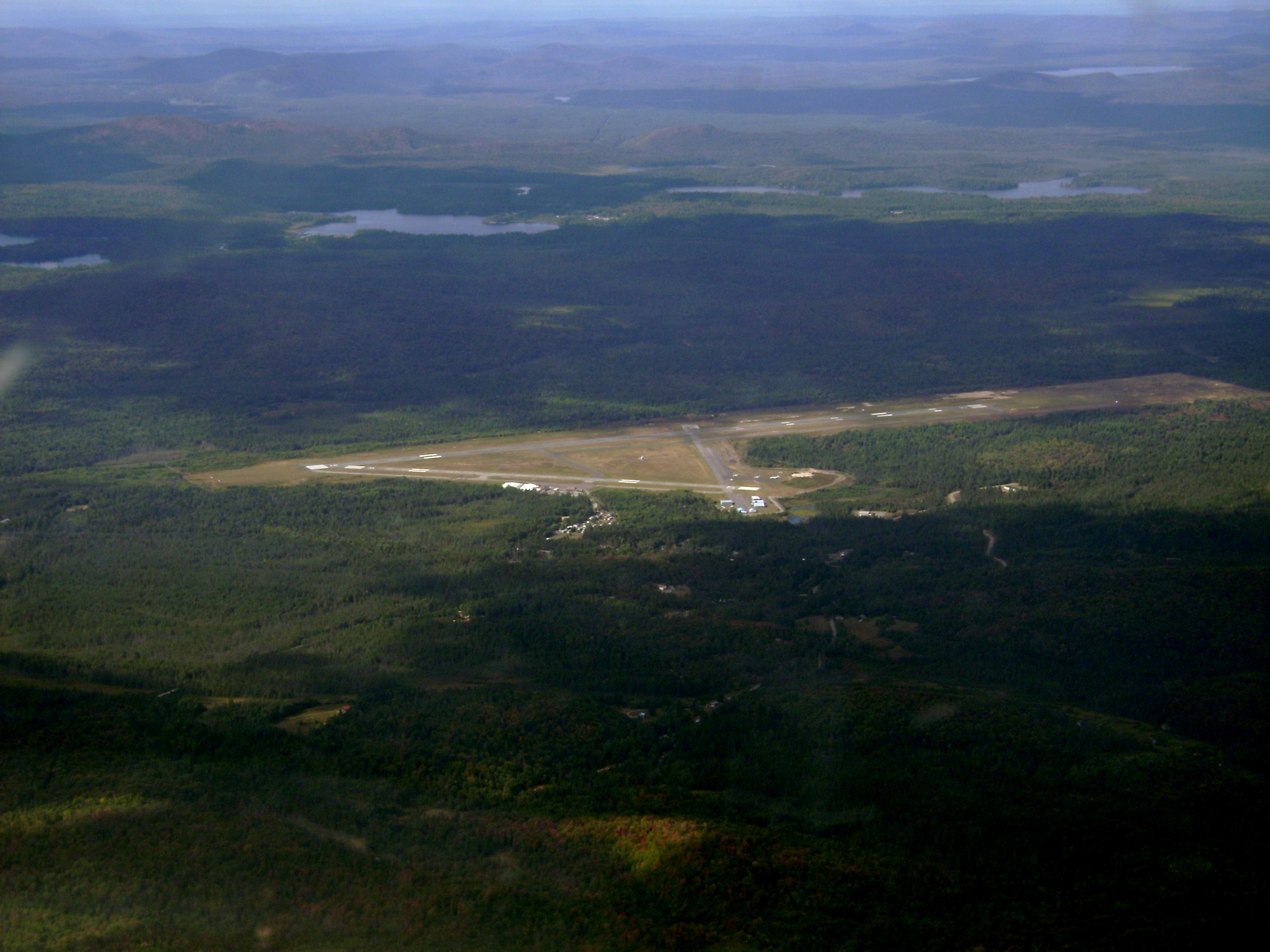 Adirondack State Airport in Saranac Lake, NY, USA